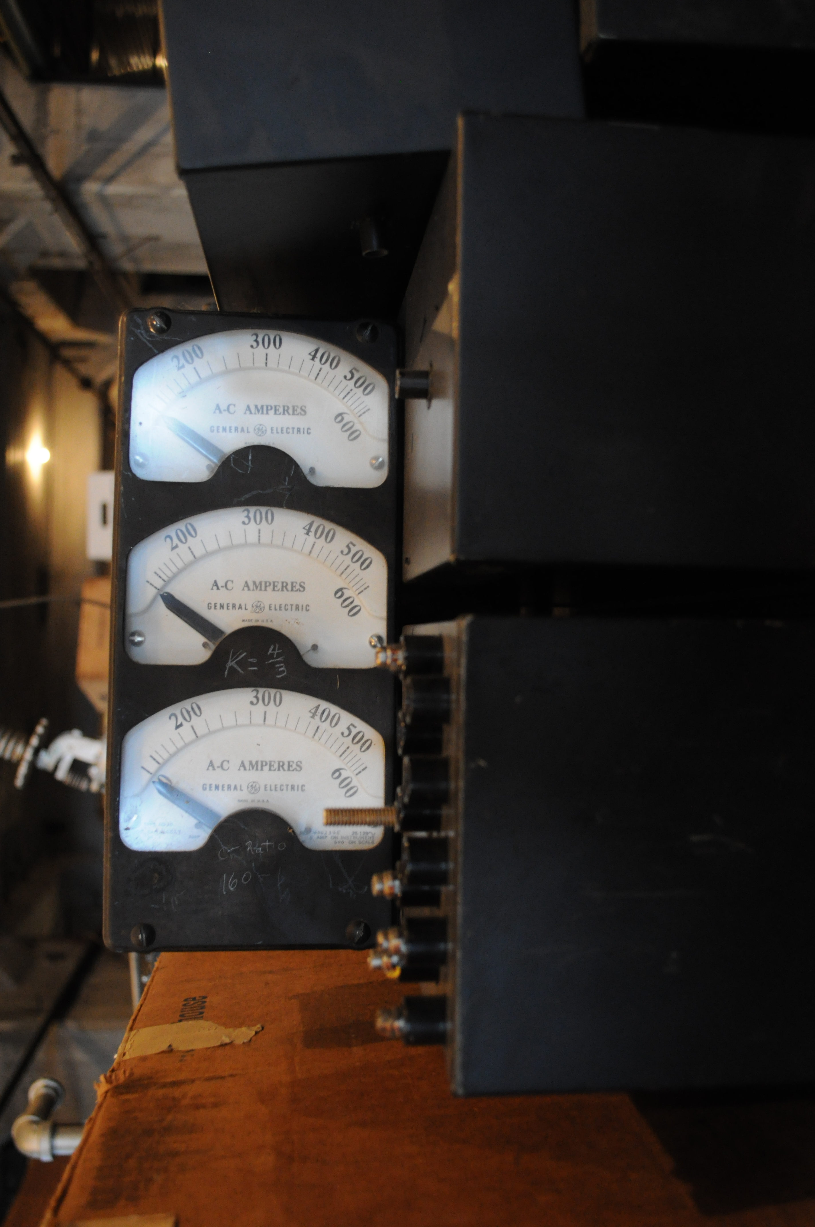 A General Electric triple ammeter stored in the back room of the Georgetown PowerPlant Museum, Georgetown, Seattle, Washington.